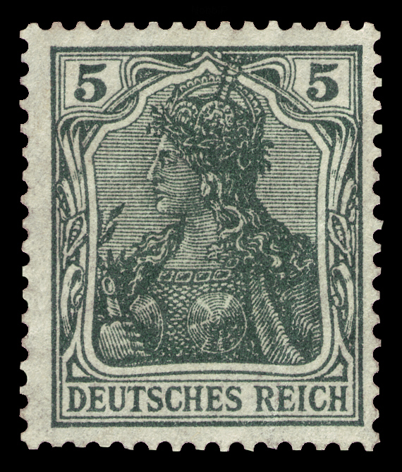 stamp series Germania Ausgabepreis: 5 Reichspfennig First Day of Issue / Erstausgabetag: 13. April 1915 Michel-Katalog-Nr: 85 II Kriegsdruck (Deutsches Reich)